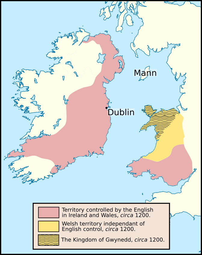 This map depicts the area of English control in Ireland and Wales in about 1200. Also shown is the Welsh Kingdom of Gwynedd, and the location of Mann in relation to this Welsh kingdom. I based this map off two published in the following books: Page xxii of: Turvey, R. (2002). The Welsh princes: the native rulers of Wales, 1063–1283. Longman. ISBN 0 582 30811 9. Page 71 of: Davies, R. R. (2000). The first English empire: power and identities in the British Isles, 1093–1343. ISBN 0-19-820849-9.